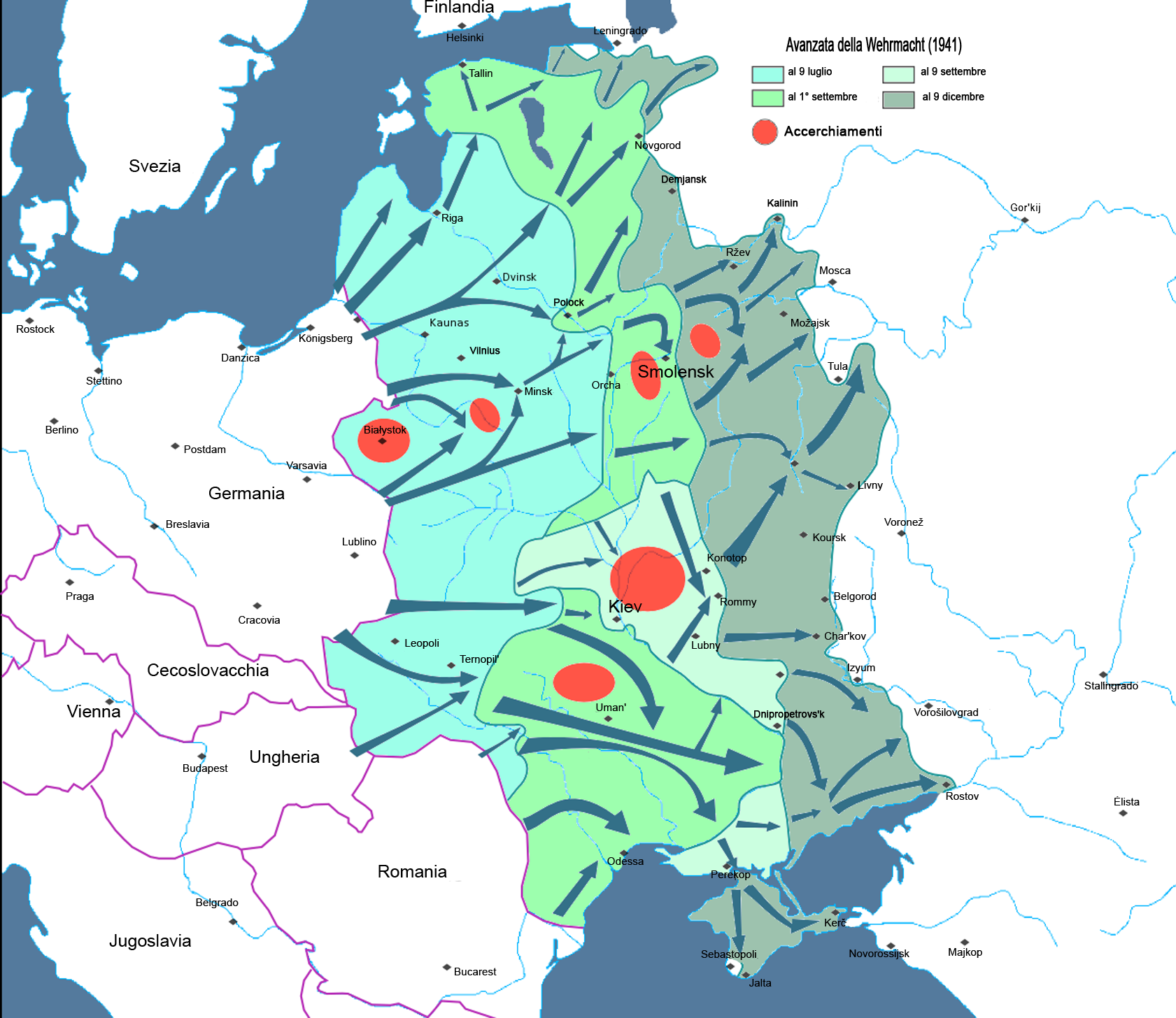 Map of east front in 1941